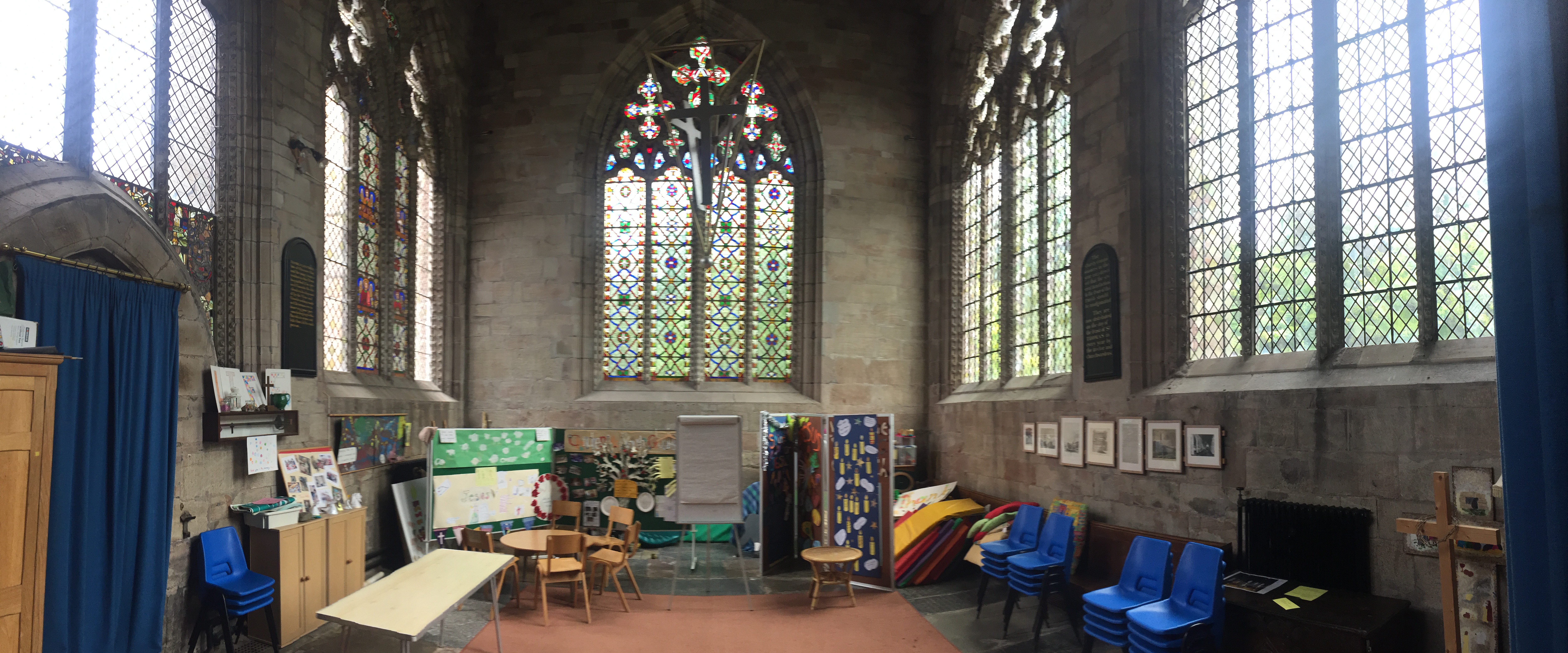 Photograph of the interior of St. Katherine's Chapel, also called the Chapter House, which adjoins the north side of St. Michael and All Angels’ Church in Ledbury, where Katherine is believed to have lived as an anchoress until her death in 1327 or thereafter.